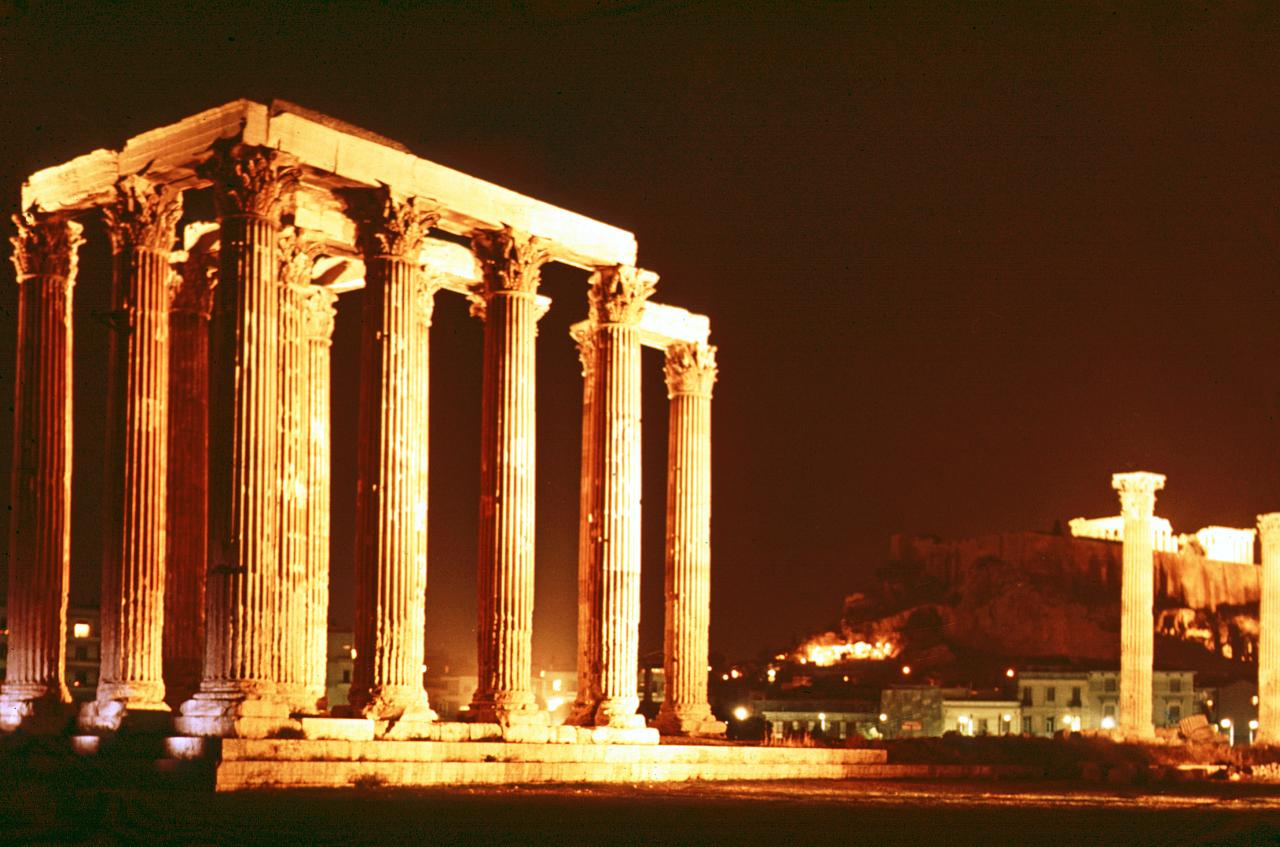 Temple of Olympic Zeus at Night, Athens, Greece. Photo taken in 1978.